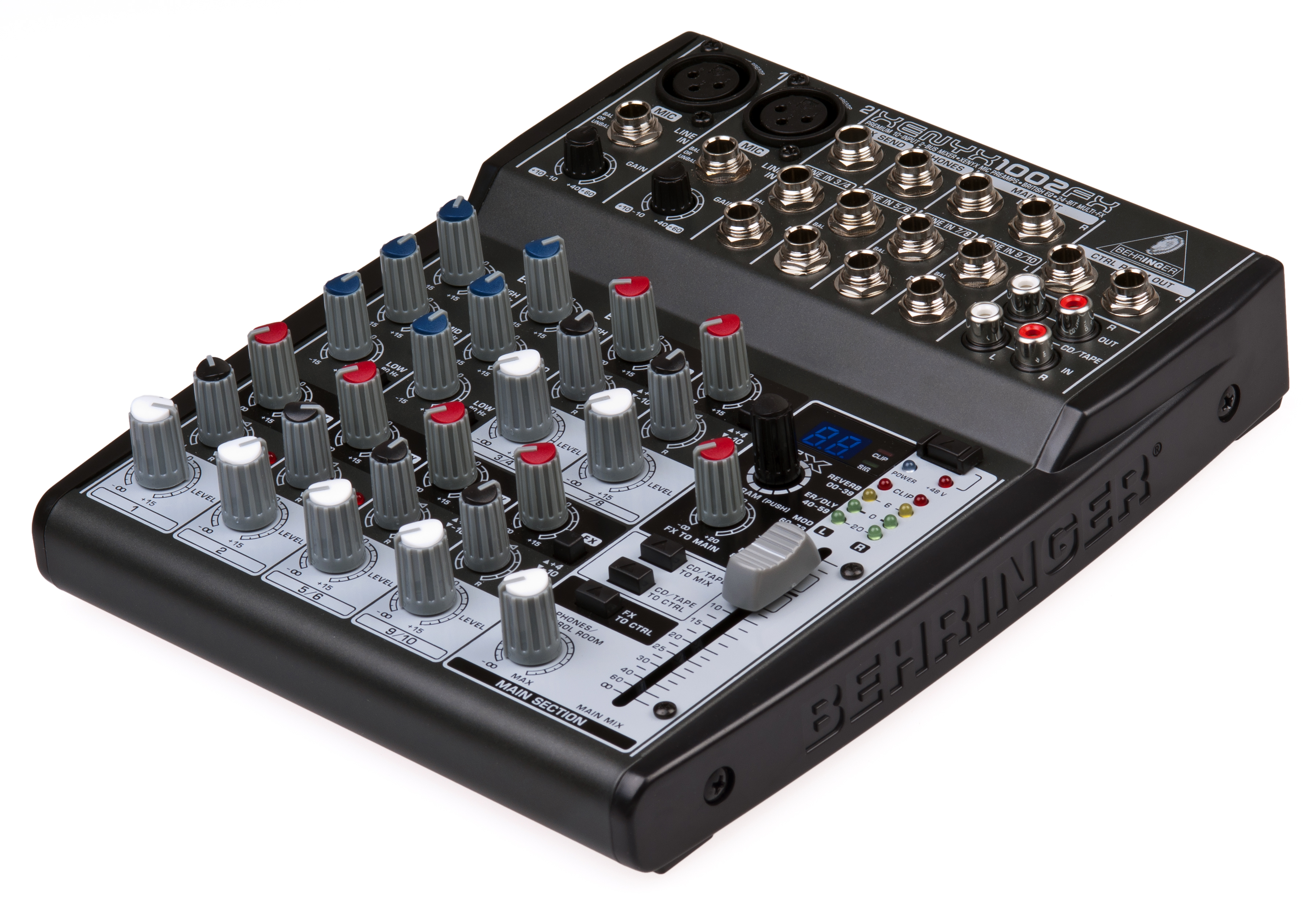 A Behringer Xenyx 1002FX audio mixer.